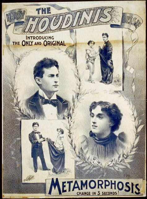 Title: The Houdinis, Harry, Bessie introducing the only and original. Abstract/medium: 1 print : color lithograph ; sheet 62 x 46 cm. (poster format)